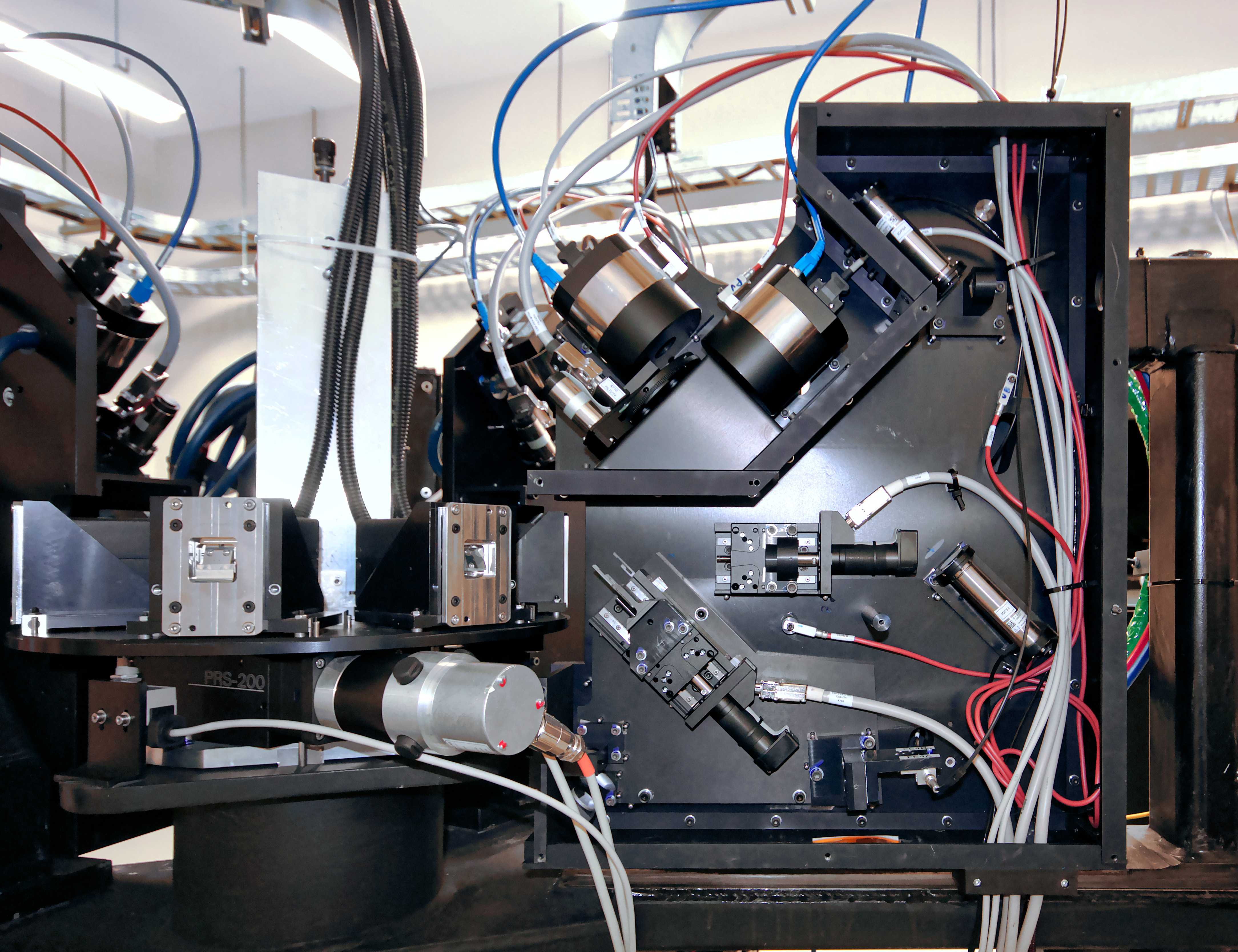 The Echelle SPectrograph for Rocky Exoplanet and Stable Spectroscopic Observations (ESPRESSO) successfully made its first observations in November 2017. Installed on ESO’s Very Large Telescope (VLT) in Chile, ESPRESSO will search for exoplanets with unprecedented precision by looking at the minuscule changes in the properties of light coming from their host stars. For the first time ever, an instrument will be able to sum up the light from all four VLT telescopes and achieve the light collecting power of a 16-metre telescope. This view shows the inside of one of the ESPRESSO front-ends where all the active components of the spectrograph are located.